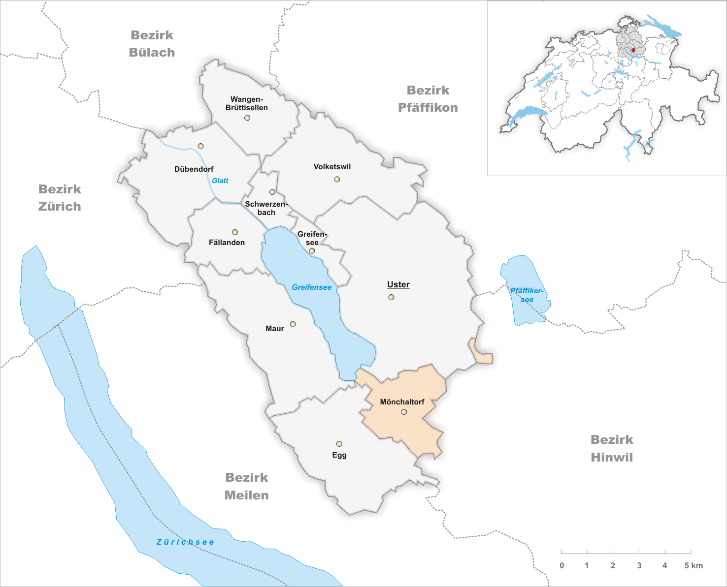 Municipality Mönchaltorf